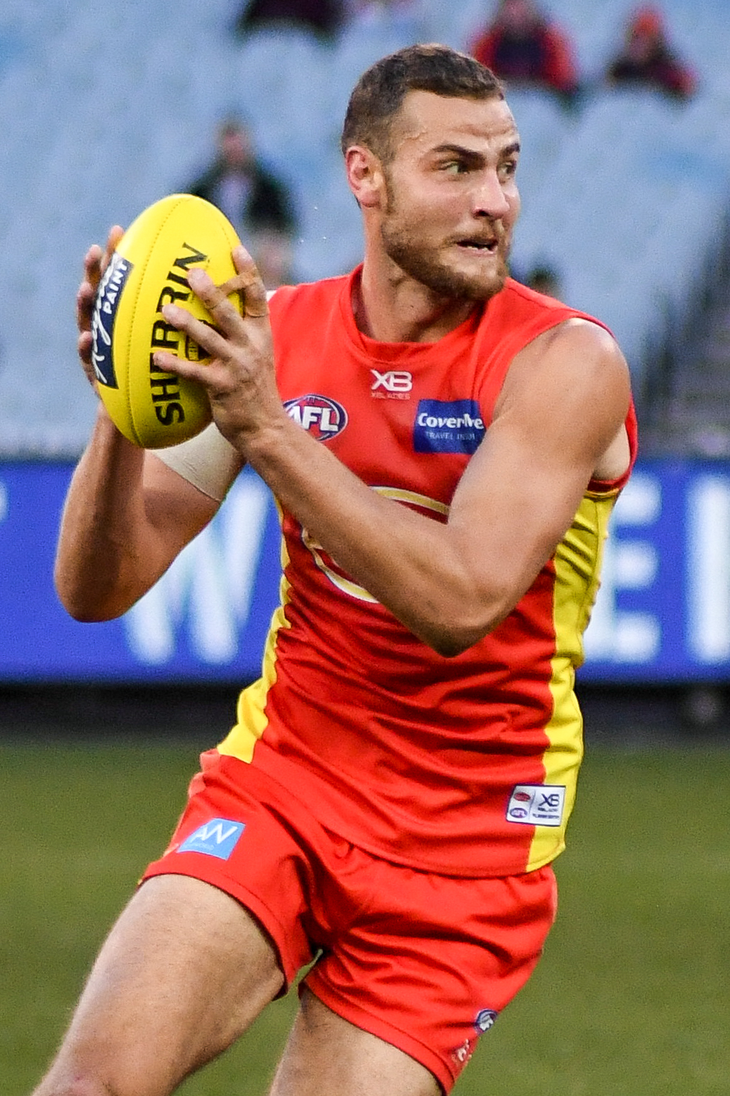 Jarrod Witts of Gold Coast during the 2018 AFL round 20 match between Melbourne and Gold Coast at the Melbourne Cricket Ground on Sunday, 5 August 2018 in Melbourne, Victoria.